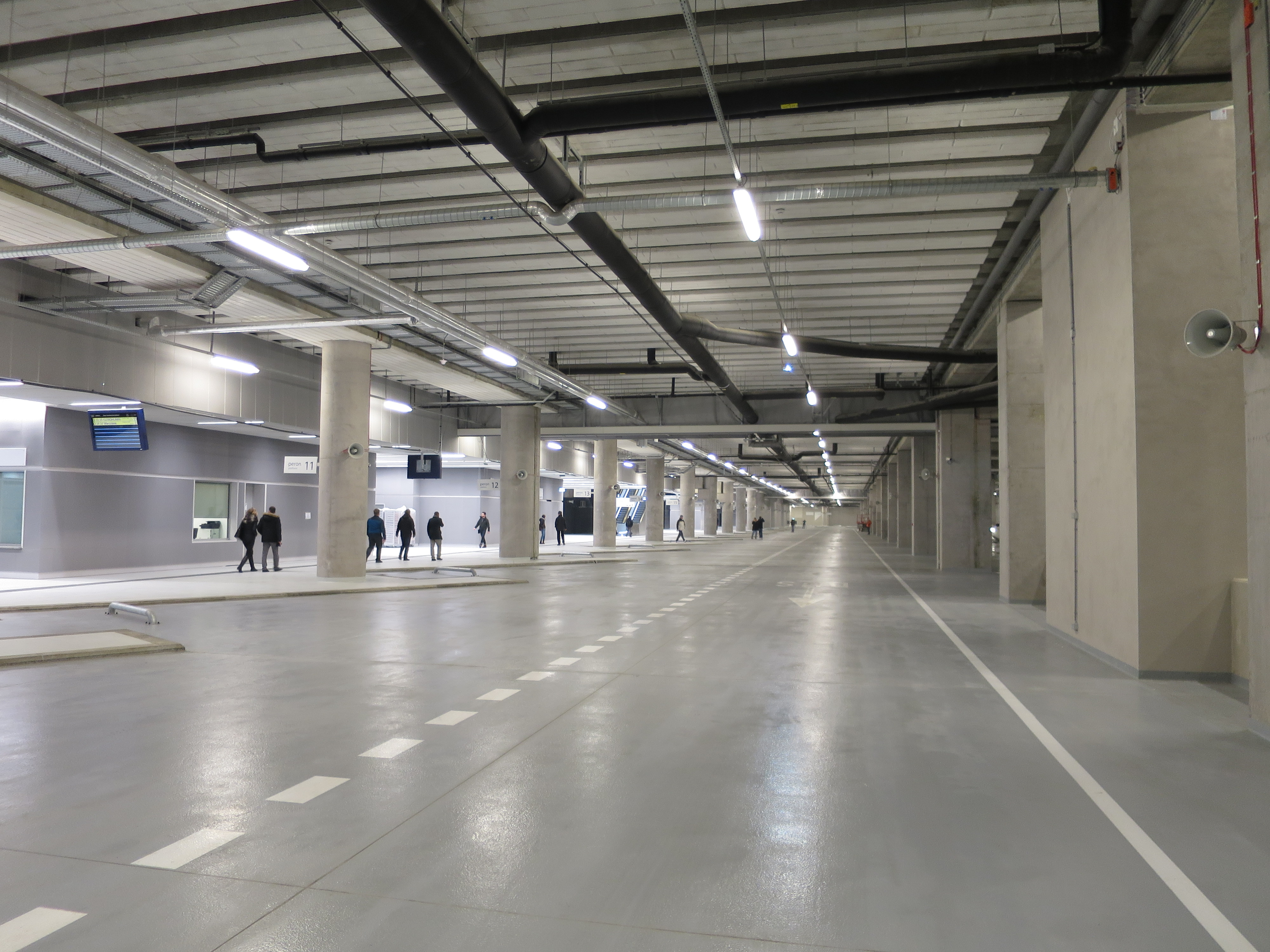 The making of this document was supported by Wikimedia Polska Association, within Wikigrant no. WG 2016-56. Łódź Fabryczna - dworzec autobusowy